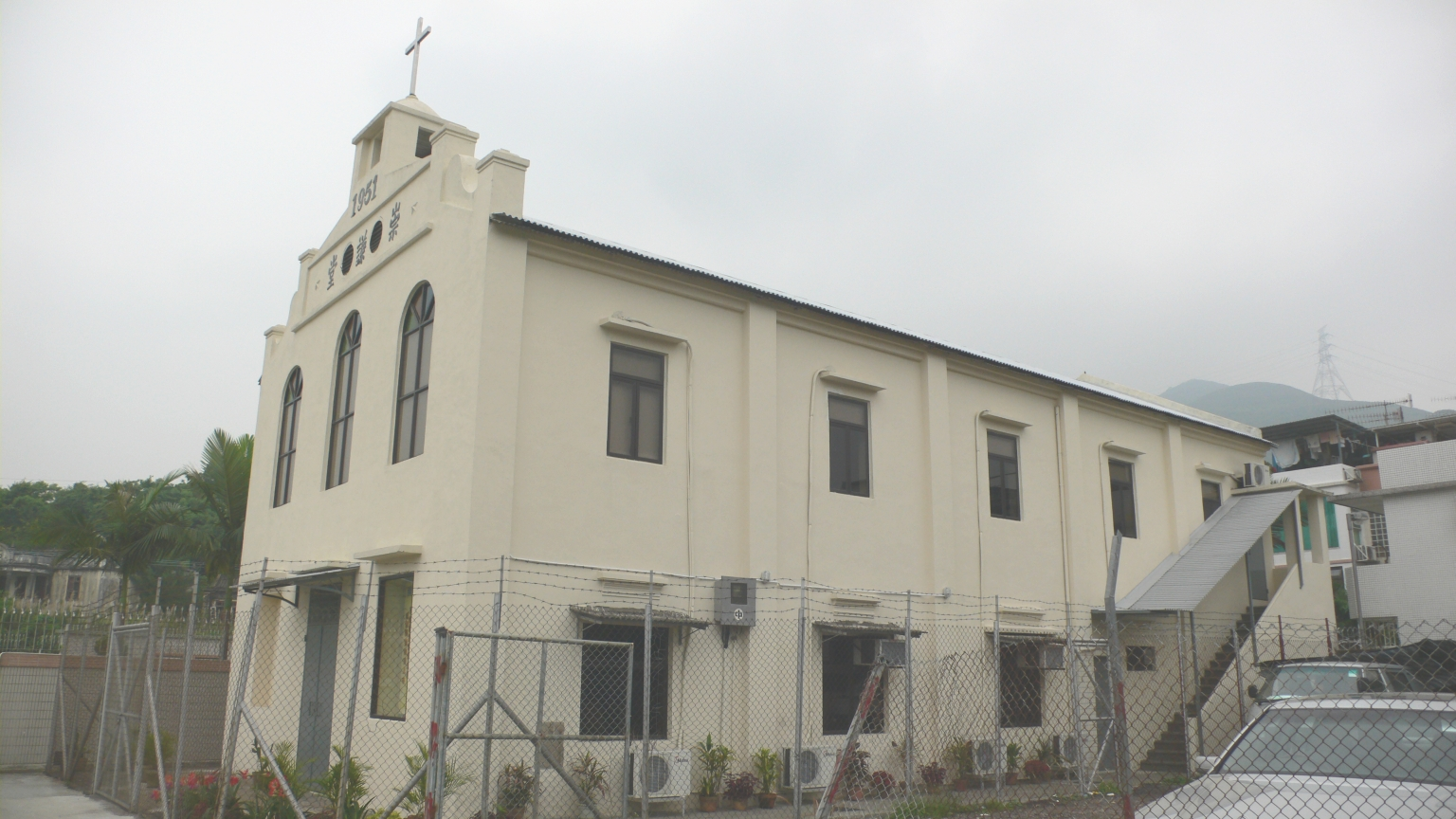 Tsung Kyam Church in 2007